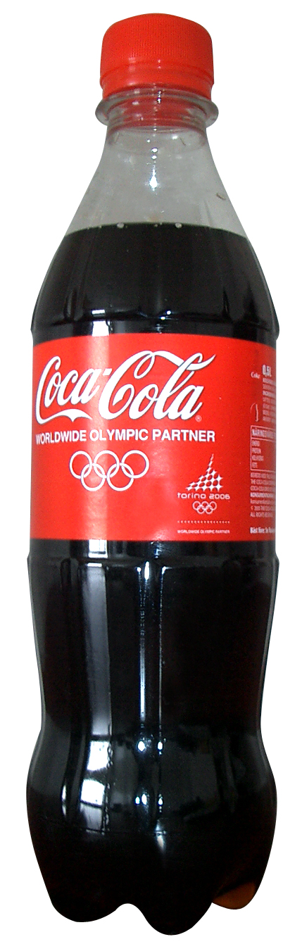 A bottle of Coca-Cola.